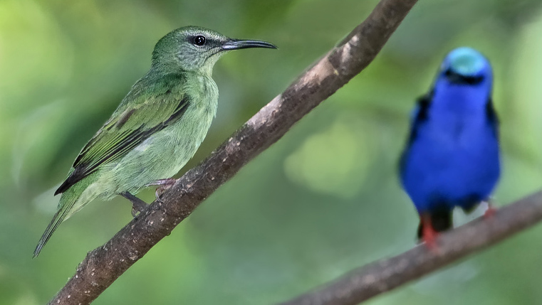 Cyanerpes cyaneus - Red-legged Honeycreeper, female (left) and male (background right)